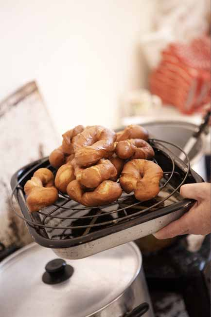 making Jersey wonders; taken at La Faîs'sie d'Cidre, Hamptonne, Jersey 19 October 2008 Nrf: La faîs'sie d'mèrvelles à La Faîs'sie d'Cidre, Hamptonne, Jèrri 19 d'Octobre 2008